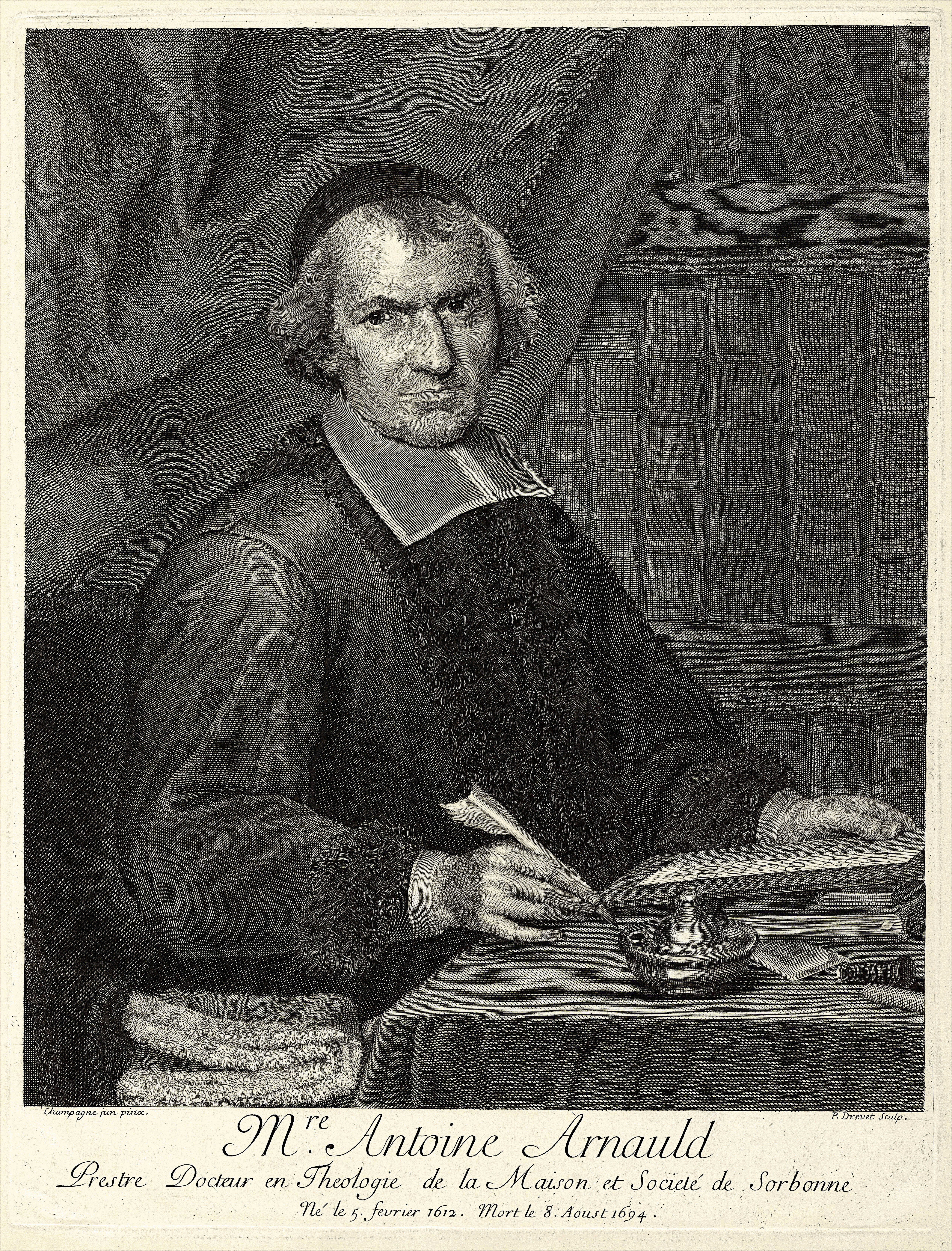 Antoine Arnauld (1612–1694), who became the leader of the Jansenists following Saint-Cyran's death in 1643. Antoine Arnauld. Le Maistre's uncle Antoine Arnauld.